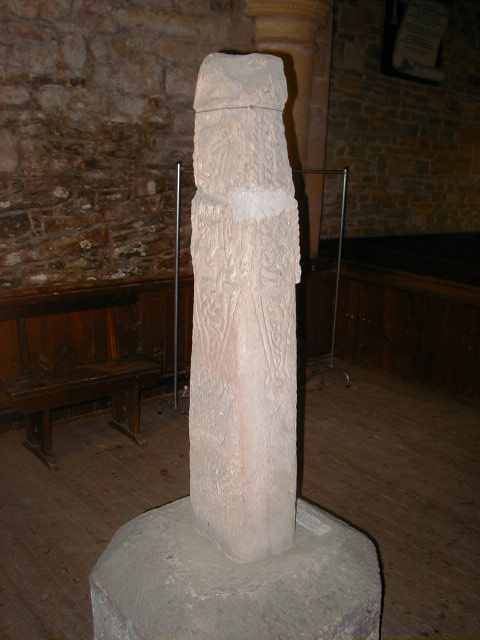 I took this photograph. The remains of the 9th century cross-shaft located in the tower.